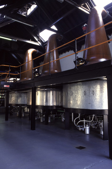 Still room Longmorn Glenlivet Distillery